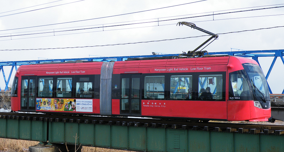 Type MLRV1000 (No.1003) of Manyo line, Imizu city, Japan.